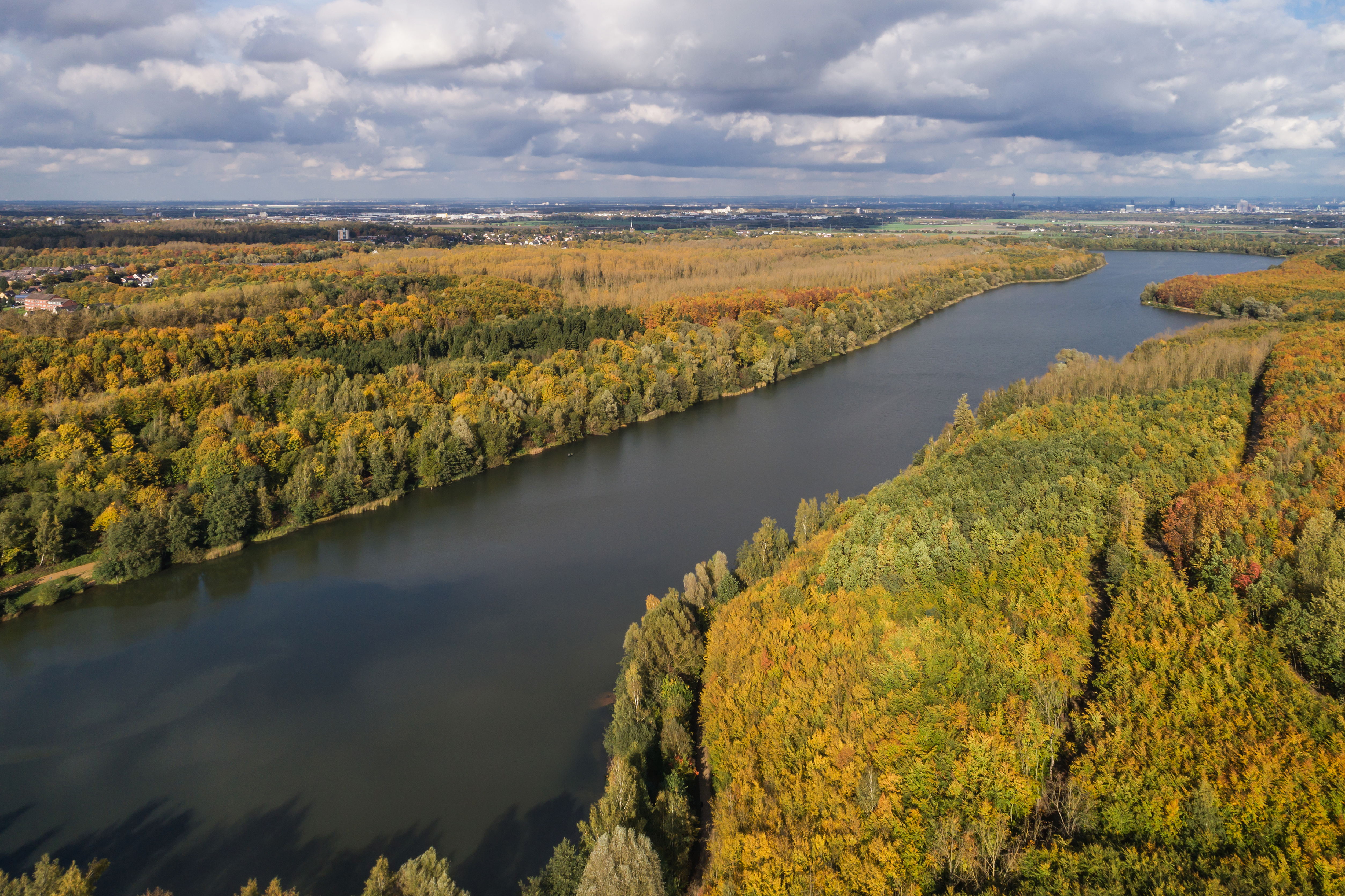 Aerial photo of a lake in Hürth, Rhein-Erft-Kreis (Germany)